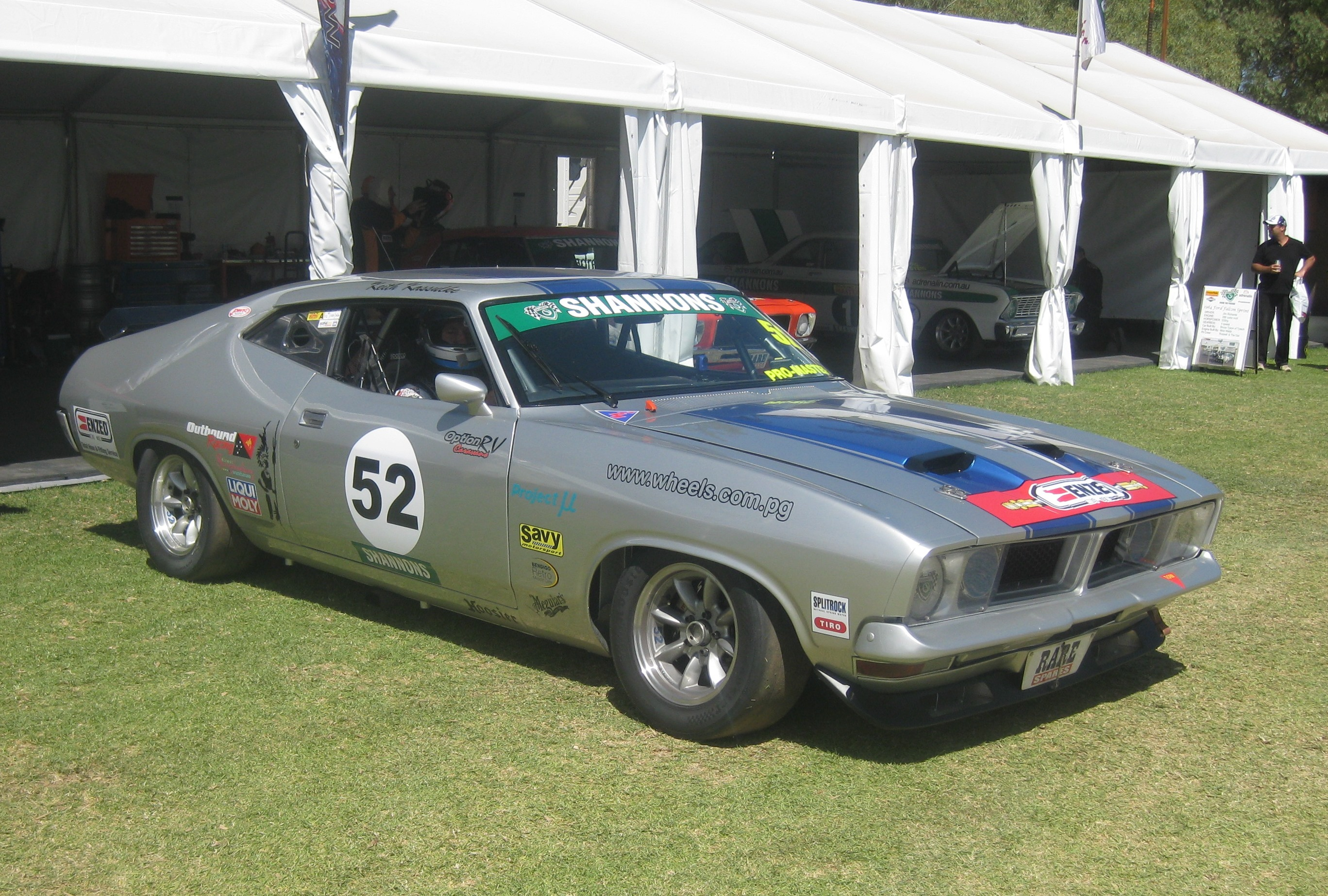 Ford XB Falcon GT Hardtop of Keith Kassulke. Round 1, 2014 Touring Car Masters, Adelaide Parklands Circuit.